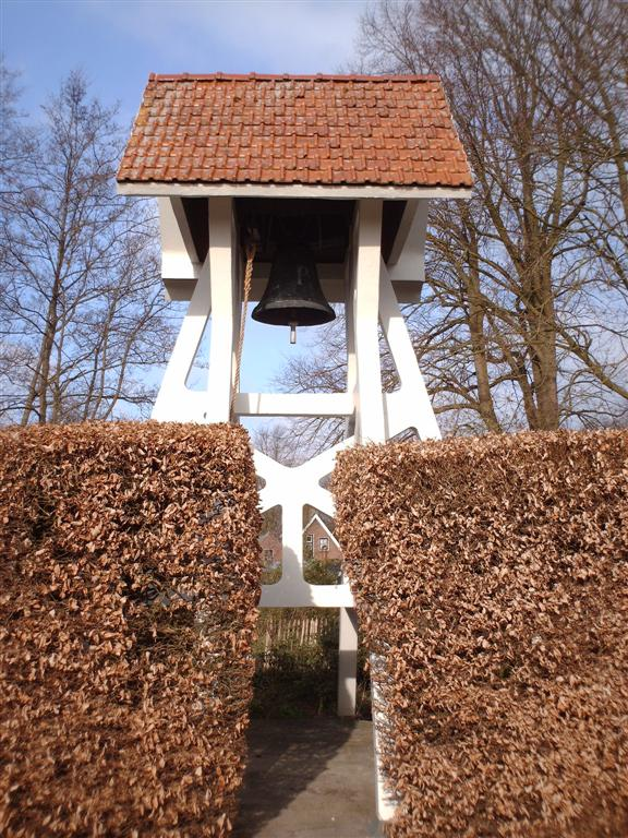 bell tower in De Knipe, Friesland, Netherlands